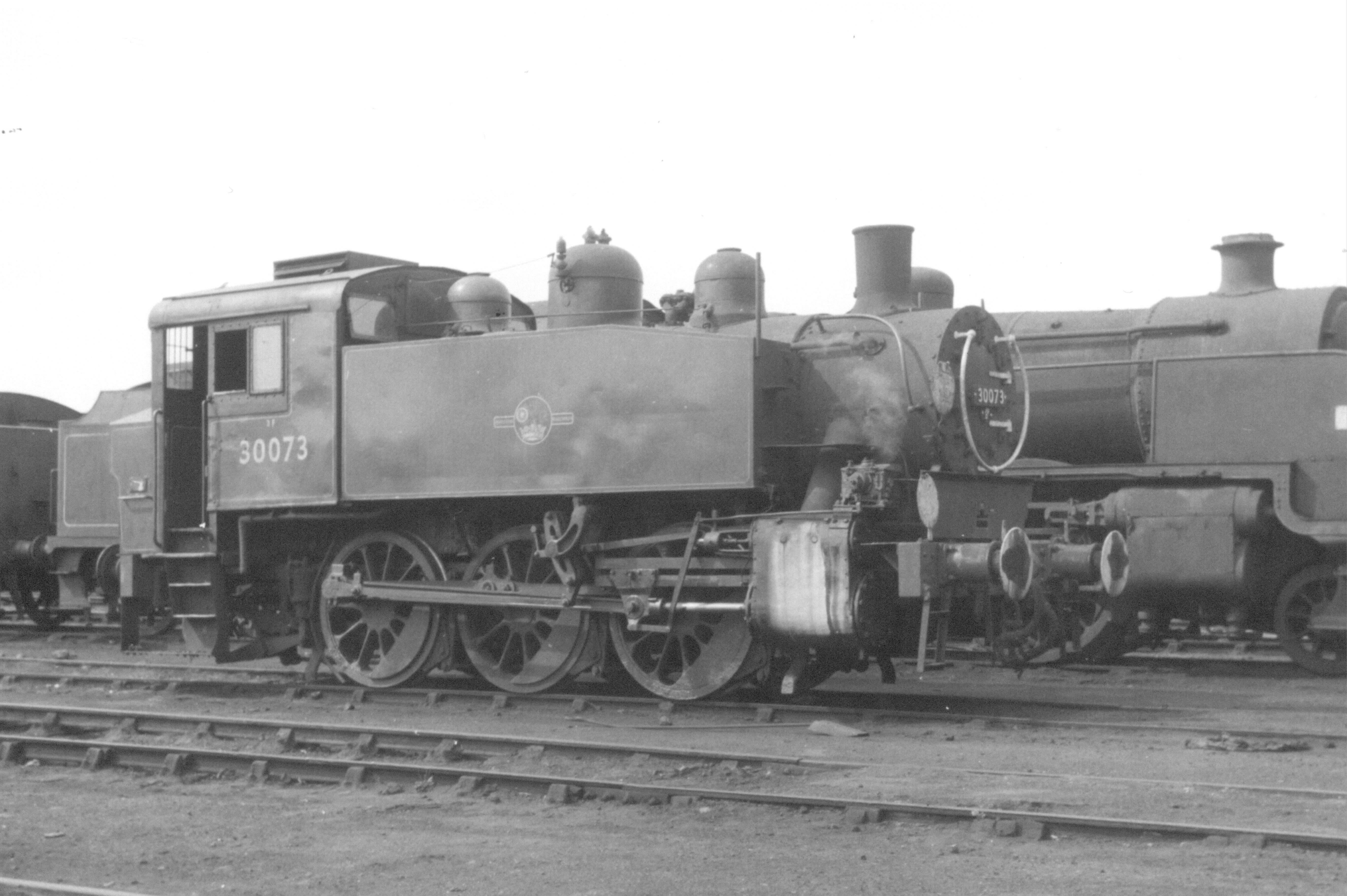 Agfa Silette; scanned from print, negative long lost!